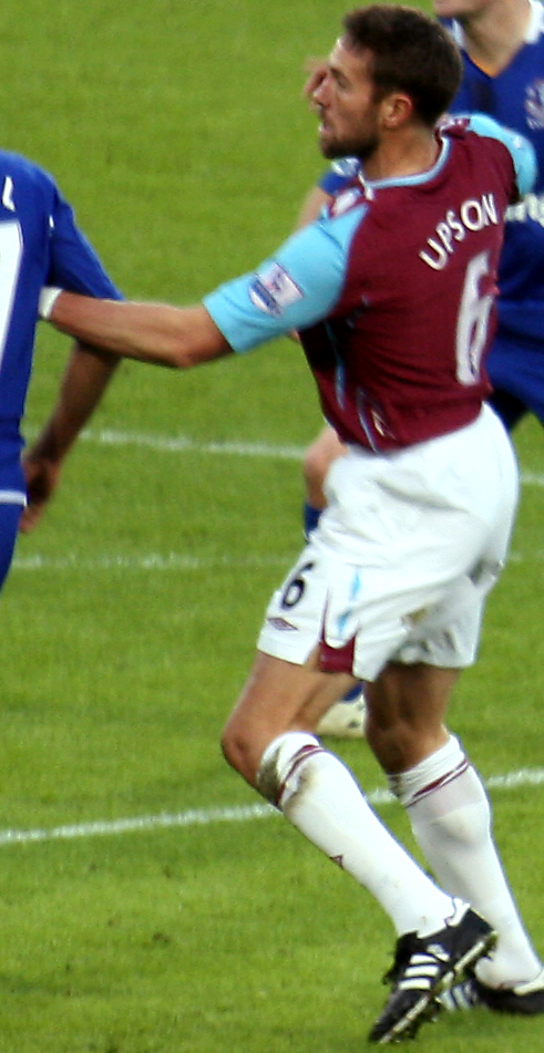 Matthew Upson. Image cropped from original at flickr.